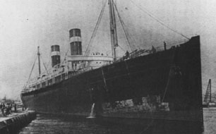 The elegant St. Paul in port.